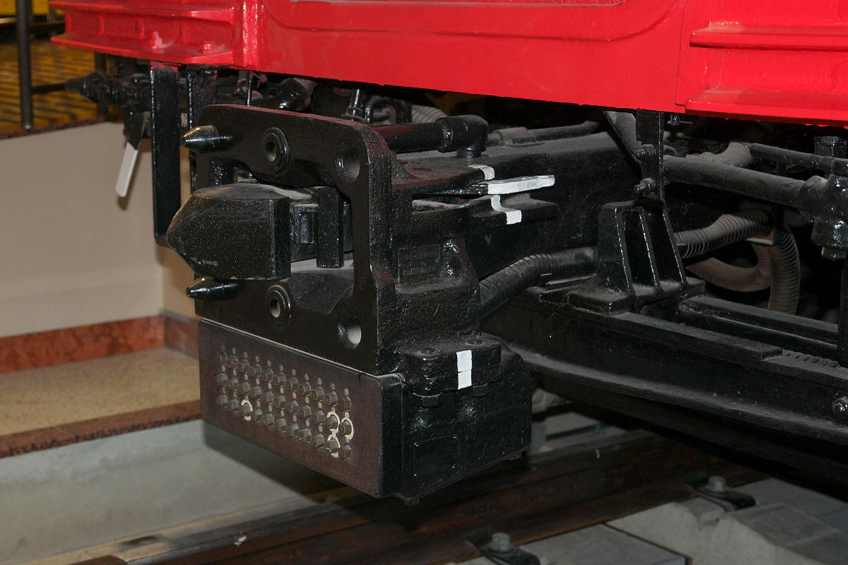 Tomlinson coupler of TRT type 300 EMU for Marunouchi line.